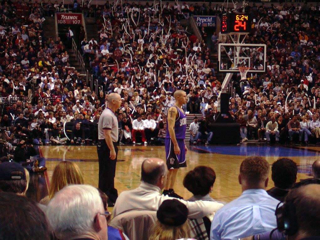 Mike Bibby at the First Union Center in Philadelphia